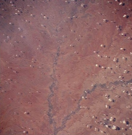 Gestro River or Weyib River (right) and Ganale River (center) ETHIOPIA/GENALE&WABE GESTRO RIV. STS029-92-6 ETHIOPIA/GENALE&WABE GESTRO RIV. ID:STS029-92-6